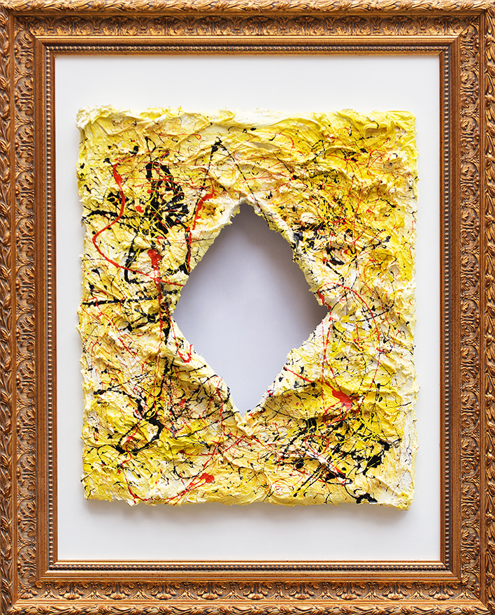 The Mouth of Etna F Version - author Cesare Catania